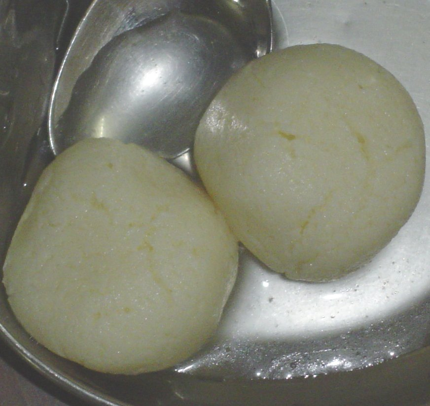 Roshogolla or cheese balls in sweet syrup